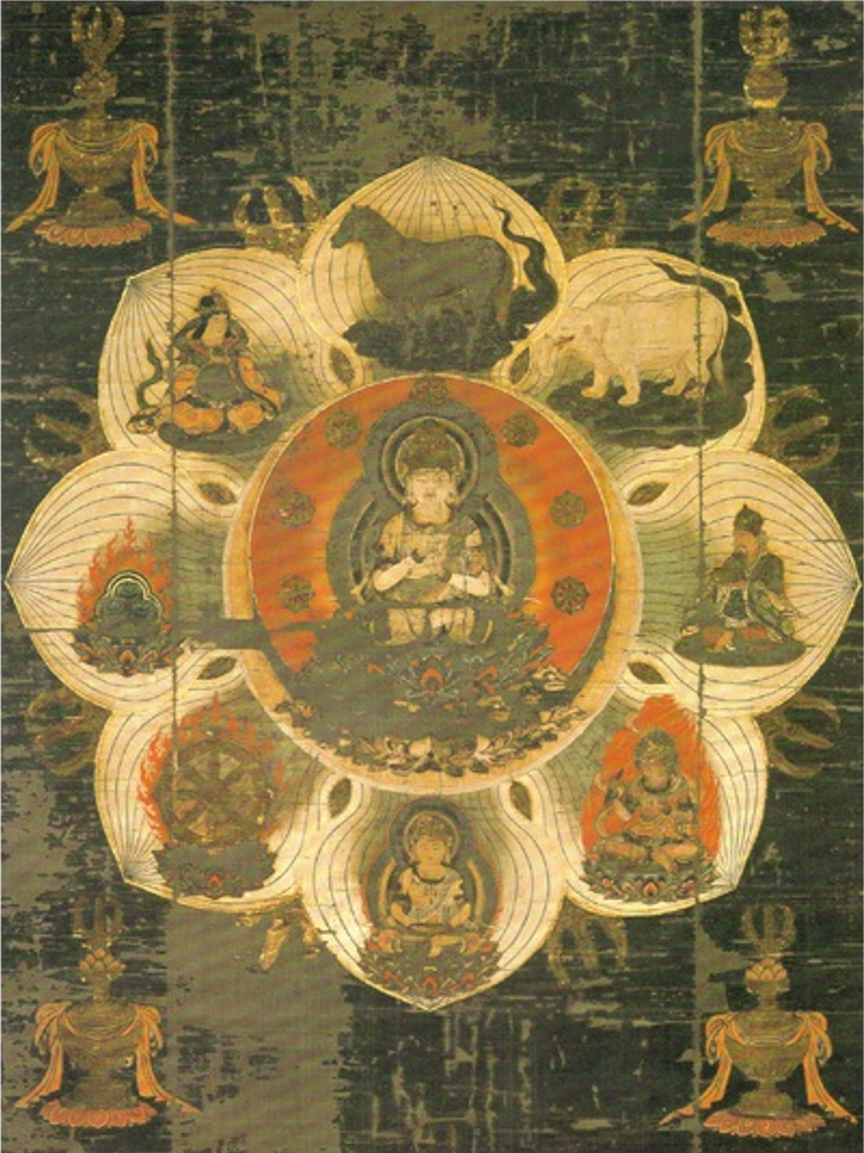 Mandala, preserved at Minamihokke-ji, Japan. 13th century